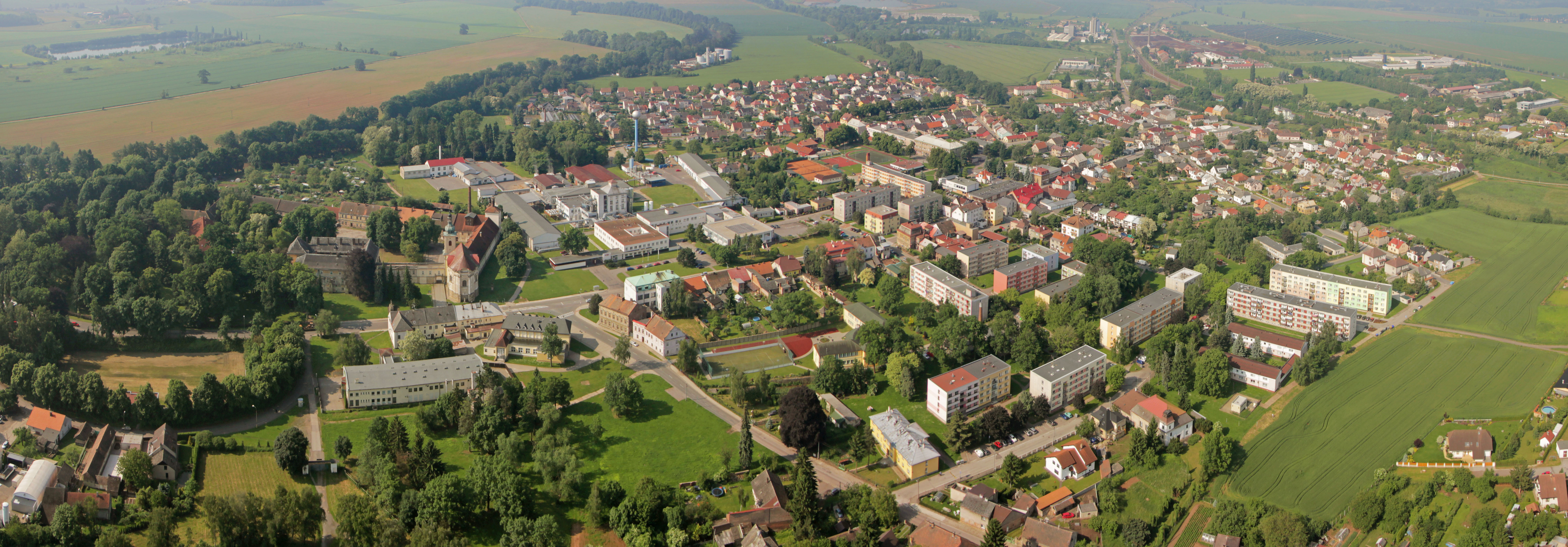 Smirice